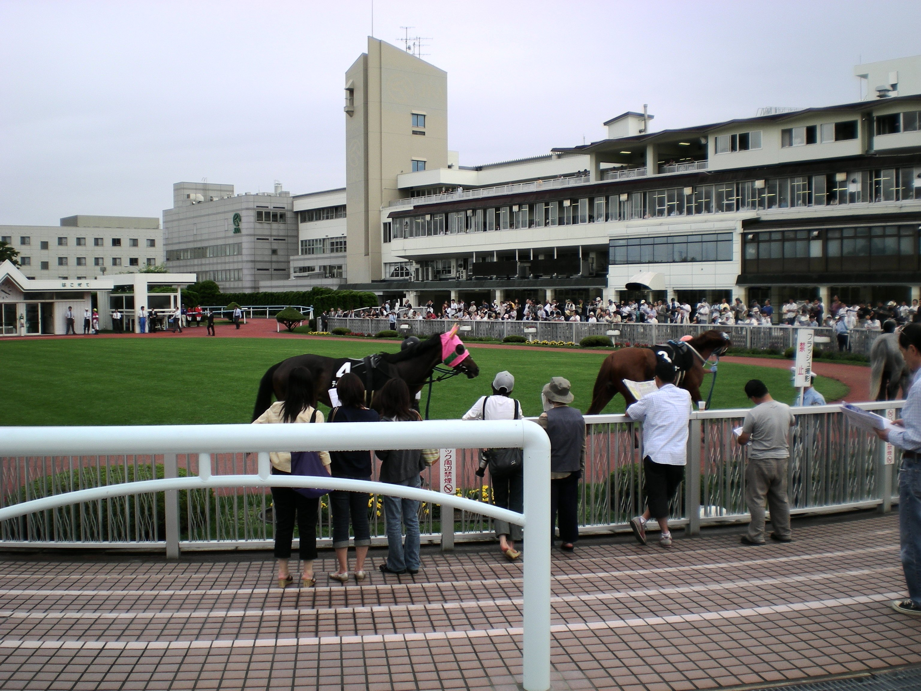 Hakodate Racecourse